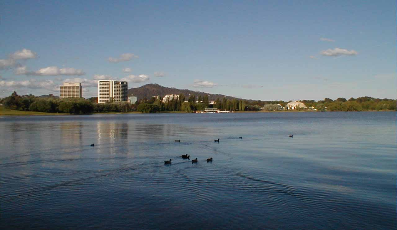 Lake Burley Griffin photo taken by Martin Conway and released under the GFDL